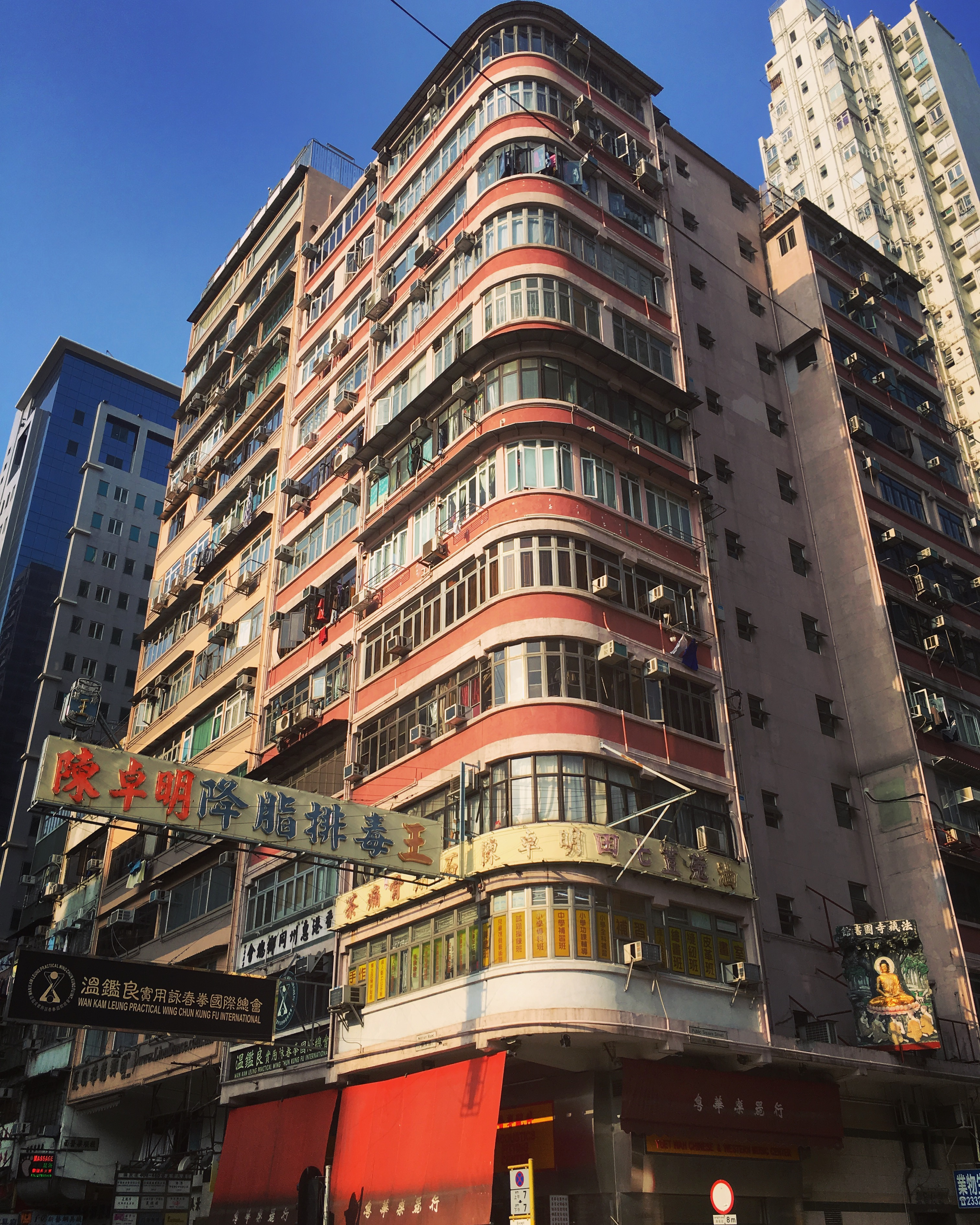 The On Cheung Building located at the intersection of Public Square Street and Nathan Road. It is a composite building, that combines residential and commercial use, which was very common in the 1950s and 60s in Hong Kong.